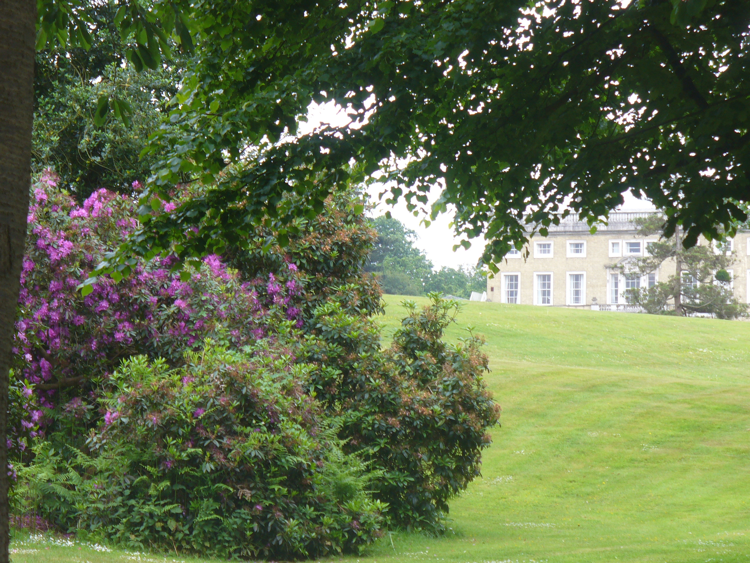 Ashtead Park showing City of London Freemen's School